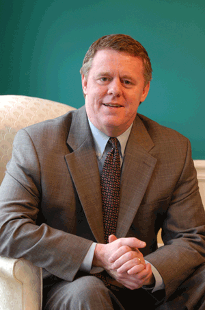 A publicity photo of Paul Jacob of the Sam Adams Alliance